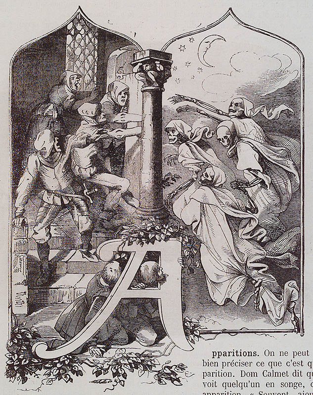 Apparitions as depicted in Collin de Plancy's Dictionnaire Infernal, first published in 1818.